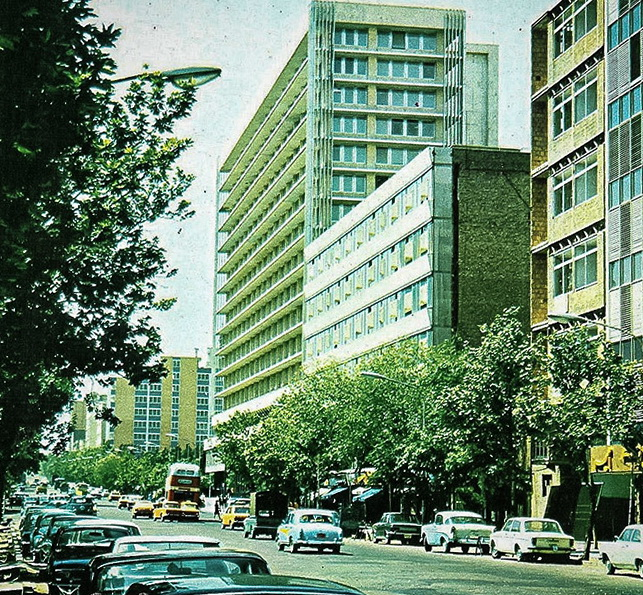 Takht-e Jamshid st, Tehran - 1971